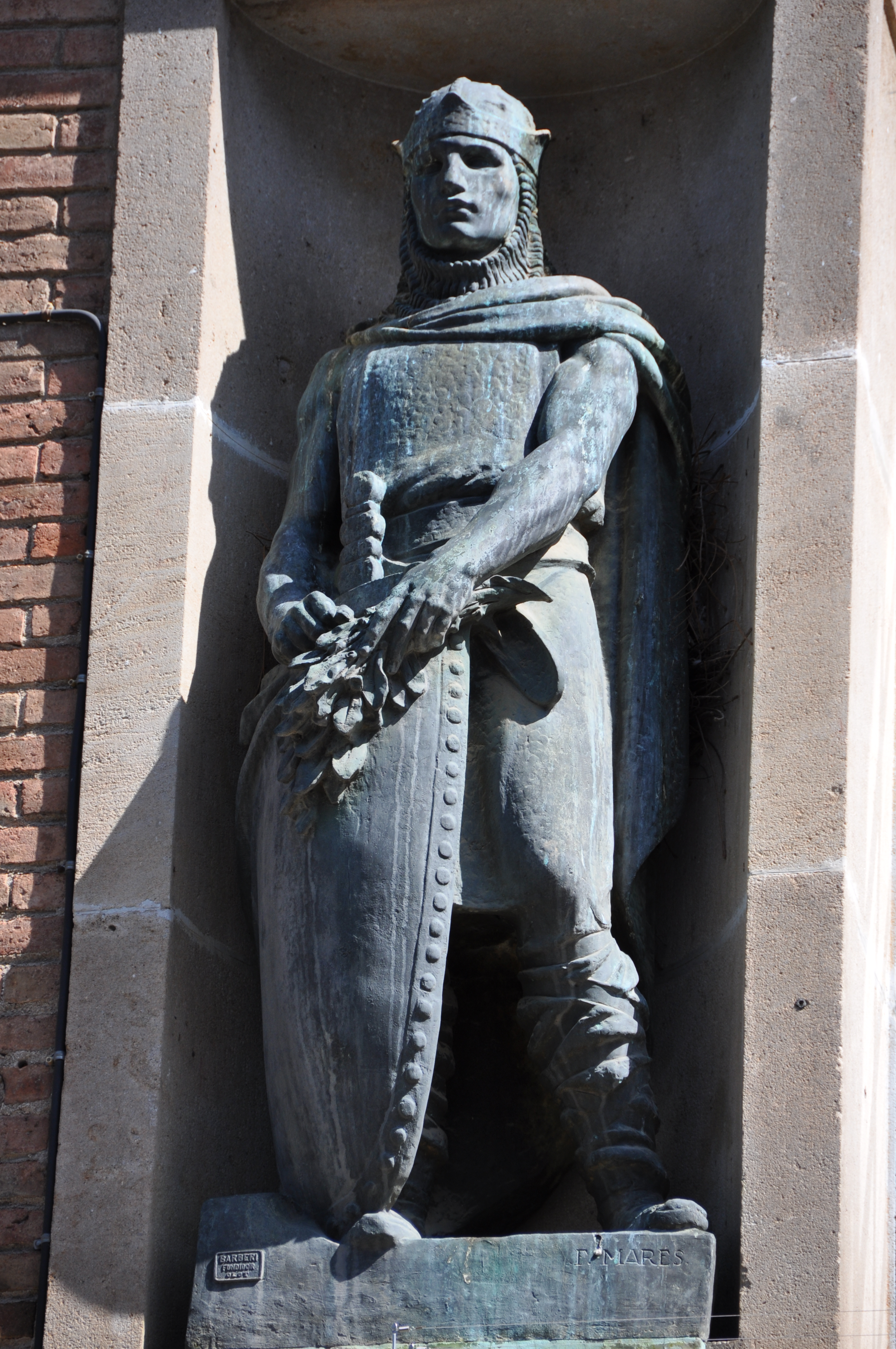 Barcelona (Montjuïc). Ramon Berenguer III, Count of Barcelona. Sculpture on the facade of the City of Barcelona pavilion for the 1929 International Exposition. 1929. Frederic Marès, sculptor